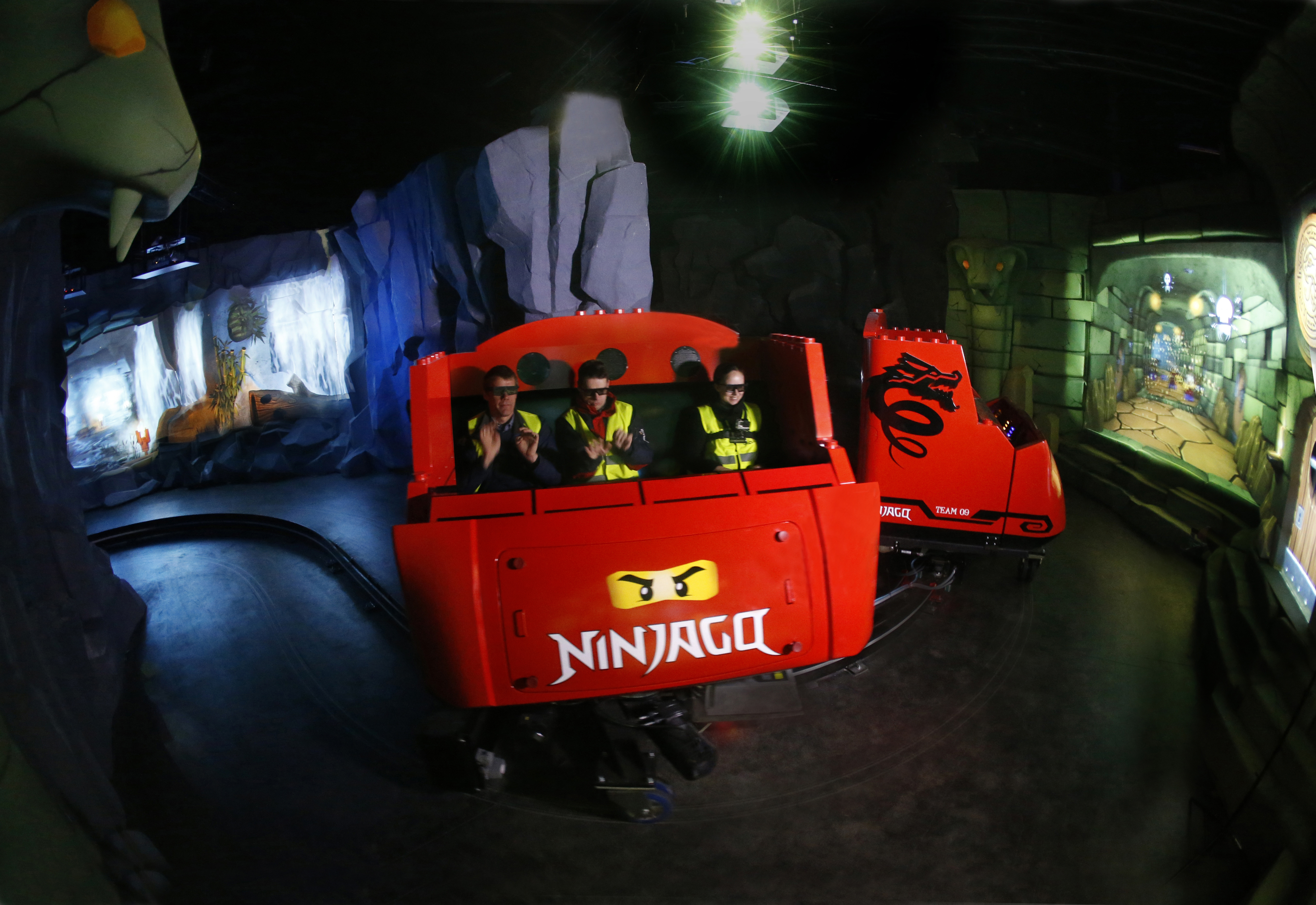 Ninjago The Ride in the amusement park Legoland Billund Resort in Denmark.